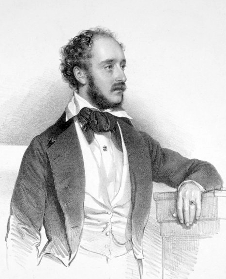 Italian opera singer Lorenzo Salvi (1813-1879) by Joseph Kriehuber (1800-1876).